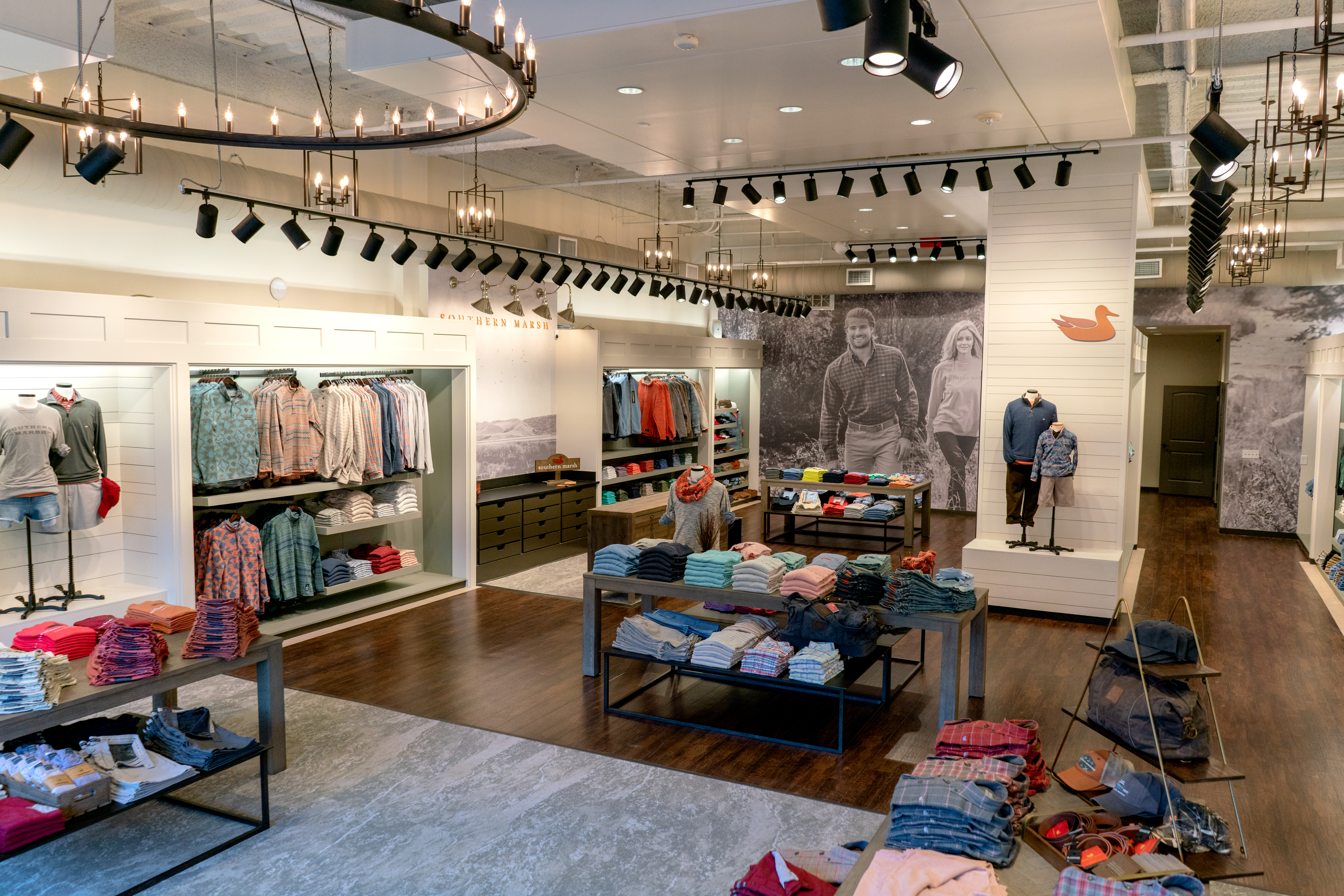 First Southern Marsh Brick and Mortar